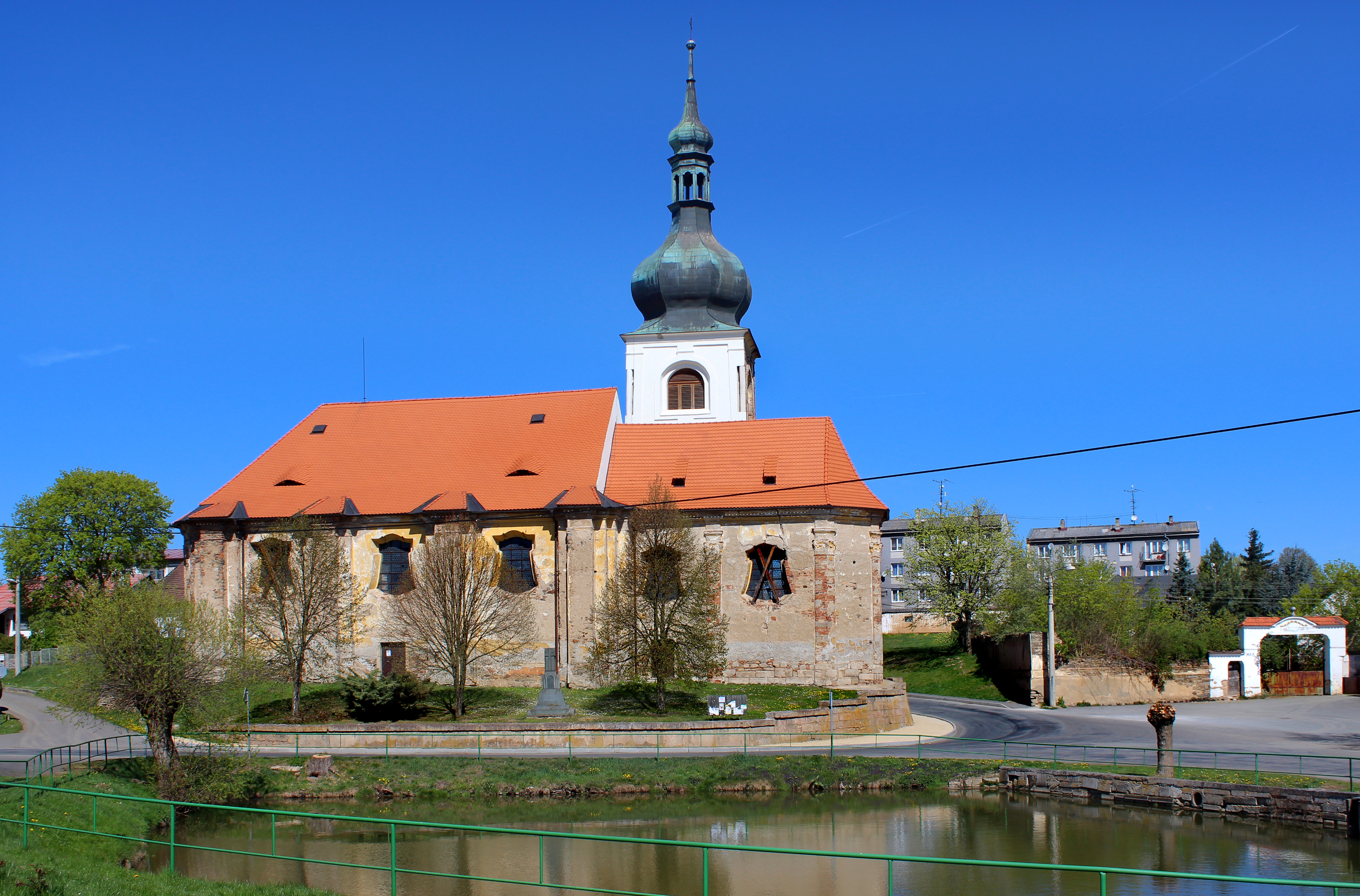 St. Margaret's Church in Erpužice village, Czech Republic